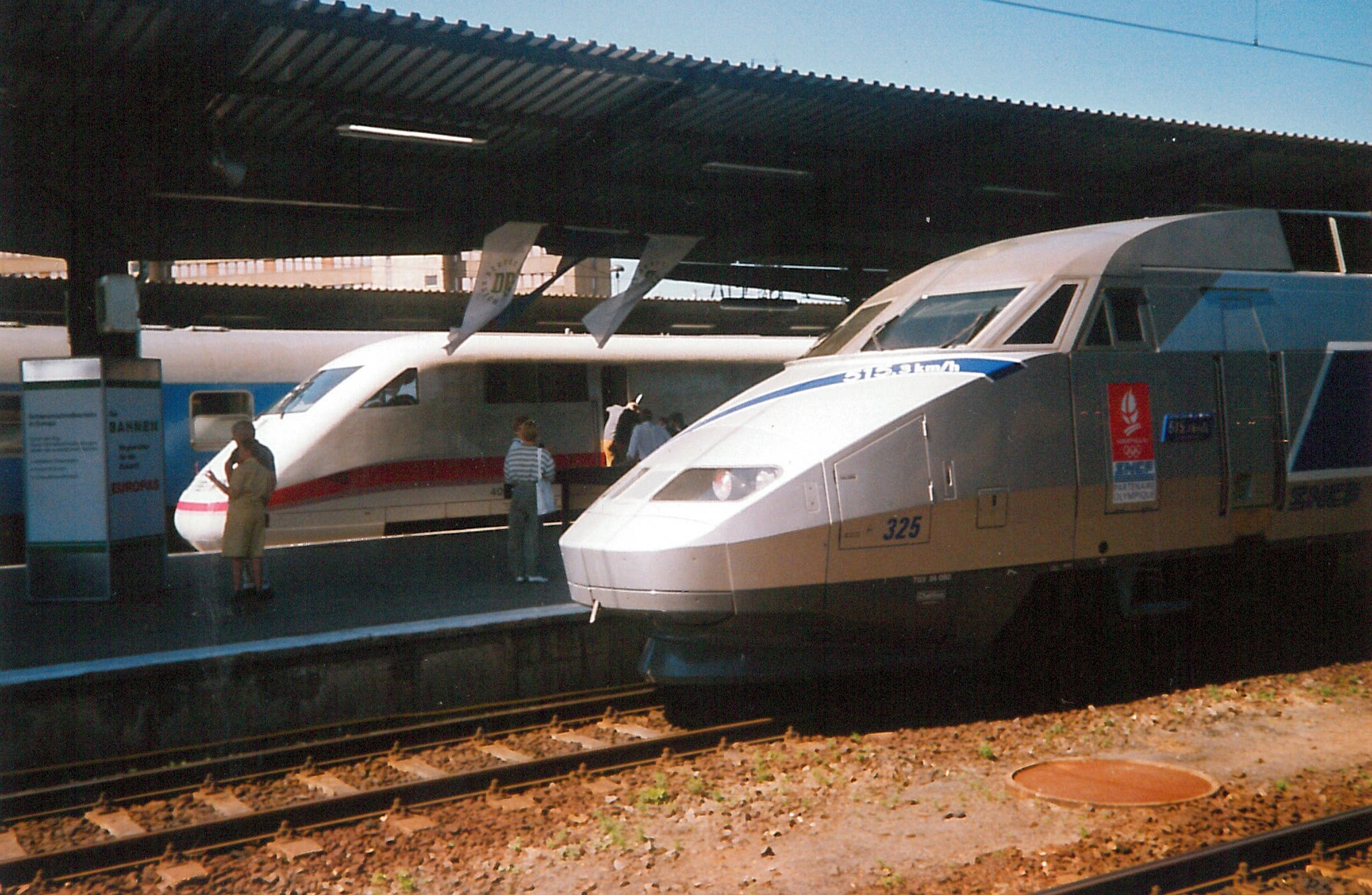 Eurailspeed 1991 with ICE 1 and TGV Atlantique Nr 325 in Berlin-Lichtenberg Station